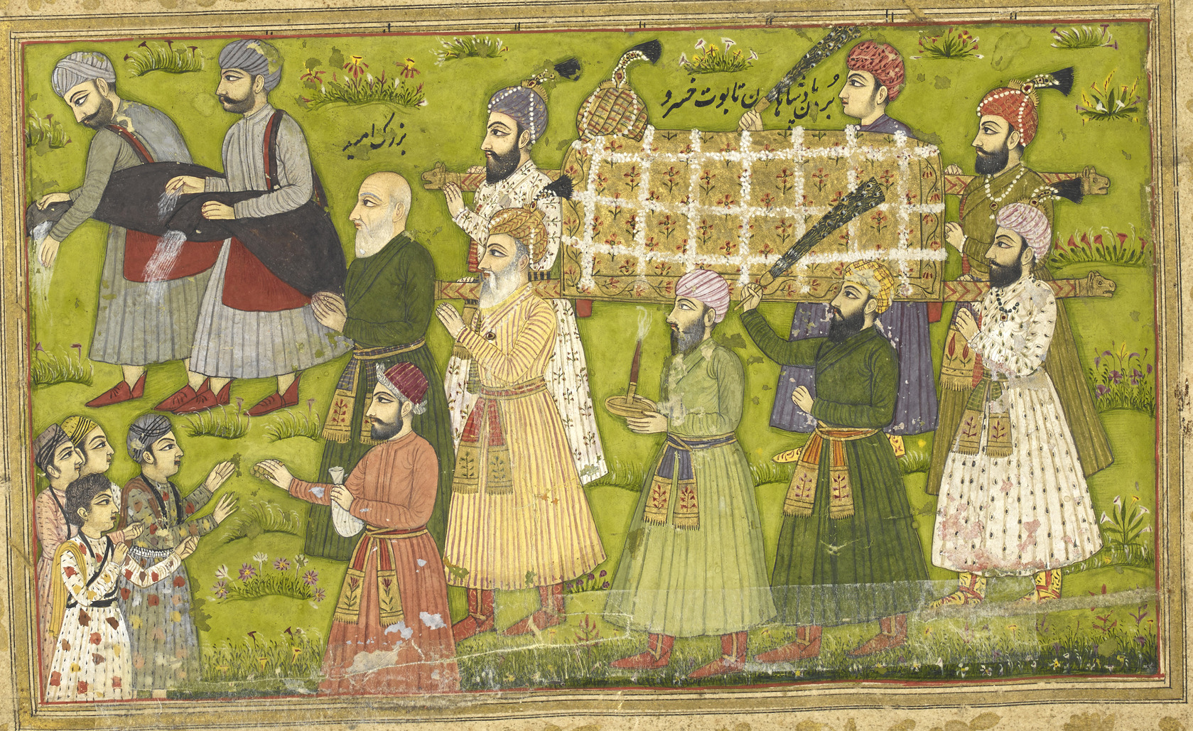 Buzurjumid leading the funeral procession accompanied by water-sprinklers and men giving coins to bystanders. Opaque watercolour. Mughal style.